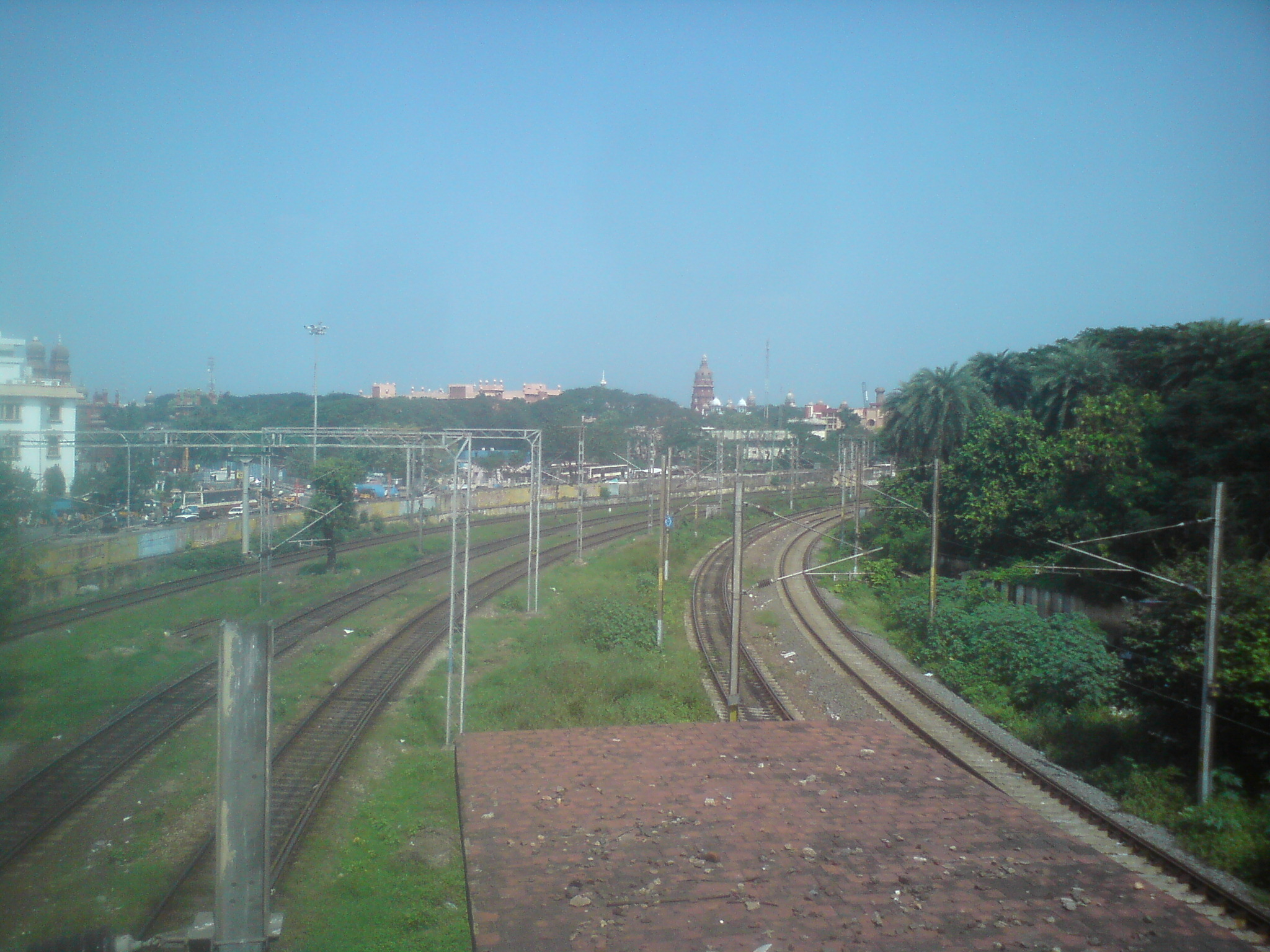 These tracks are seen from the foot-over bridge at Fort station. These tracks head towards Chennai Beach station. all the 5 tracks are broad gauge and electrified.The 3 tracks on the left are usually used by [Beach-Tambaram/Chengalpet/Tirumalpur] suburban trains and Express trains. The 2 tracks on the right are usually used by MRTS trains that ply between Chennai Beach and Velachery.